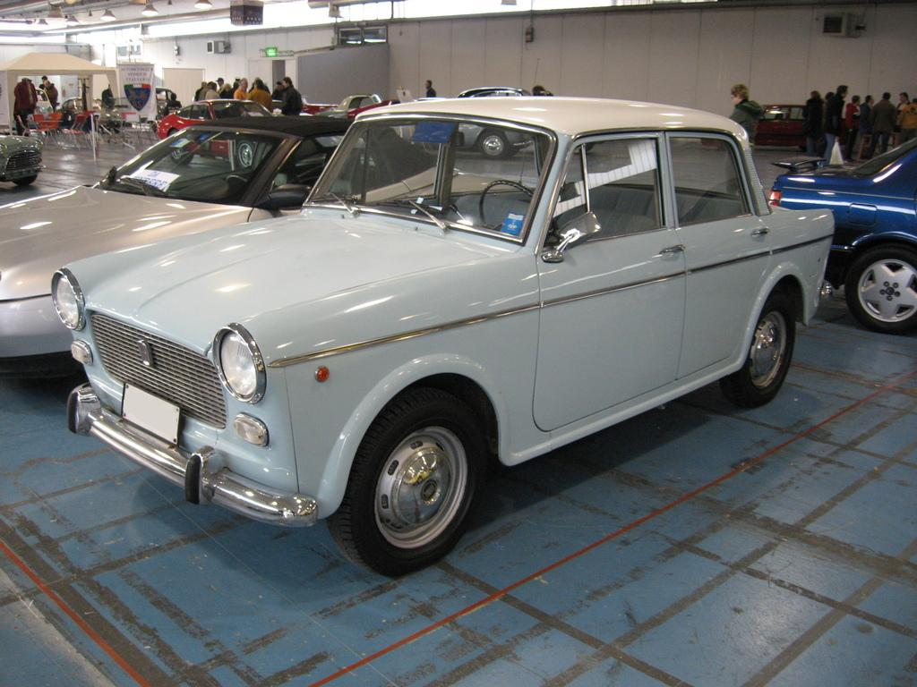 Subject: Fiat 1100 D Author: Luc106 Date: February 11th, 2007 City/Country: Pesaro, Italy Event: Old cars meeting I release all rights in the public domain